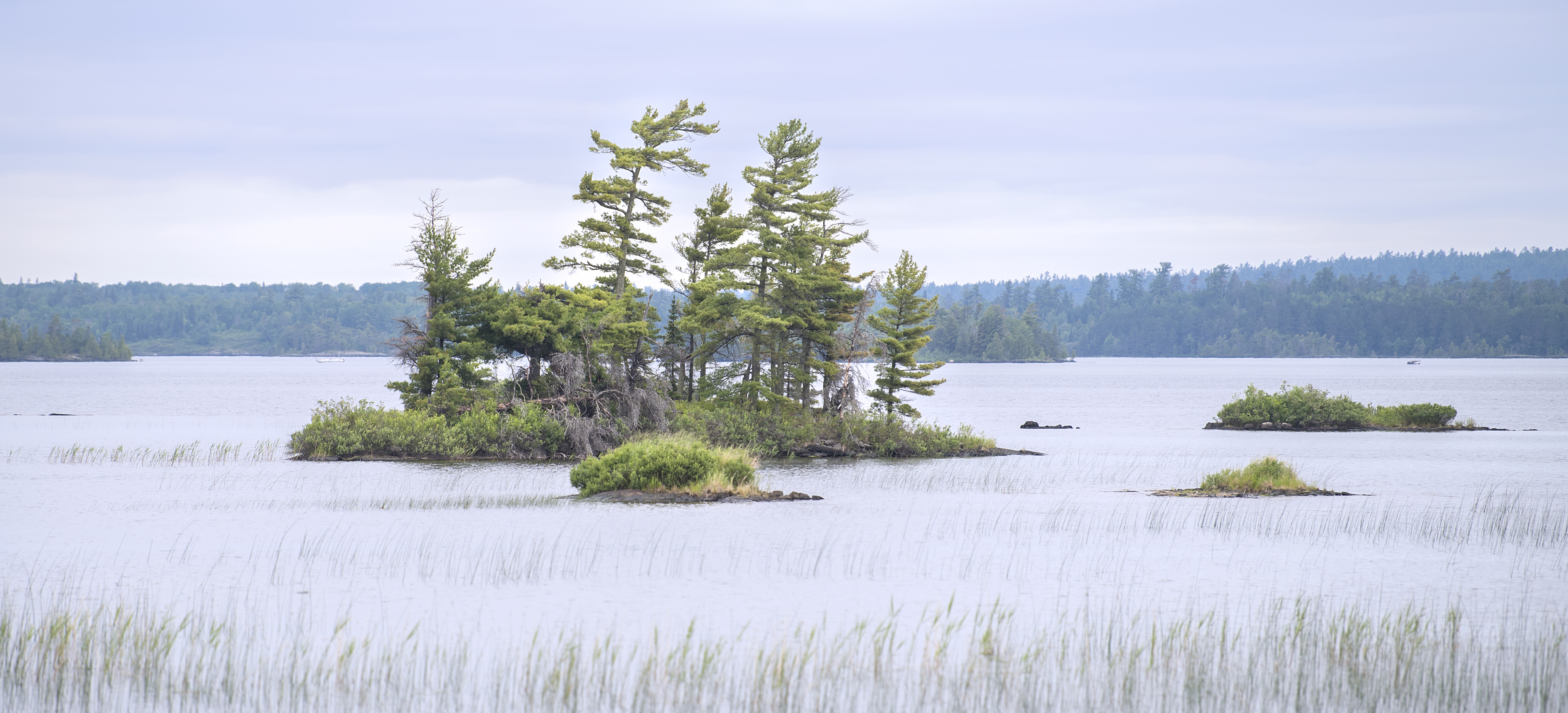 Rainy Lake in Voyageurs National Park, Minnesota, USA. This image may be used freely under the CC-BY license, but attribution must go to (and a hyperlink must be present if usage is on the web). This image is a part of a series on every US National Park which can be found at at